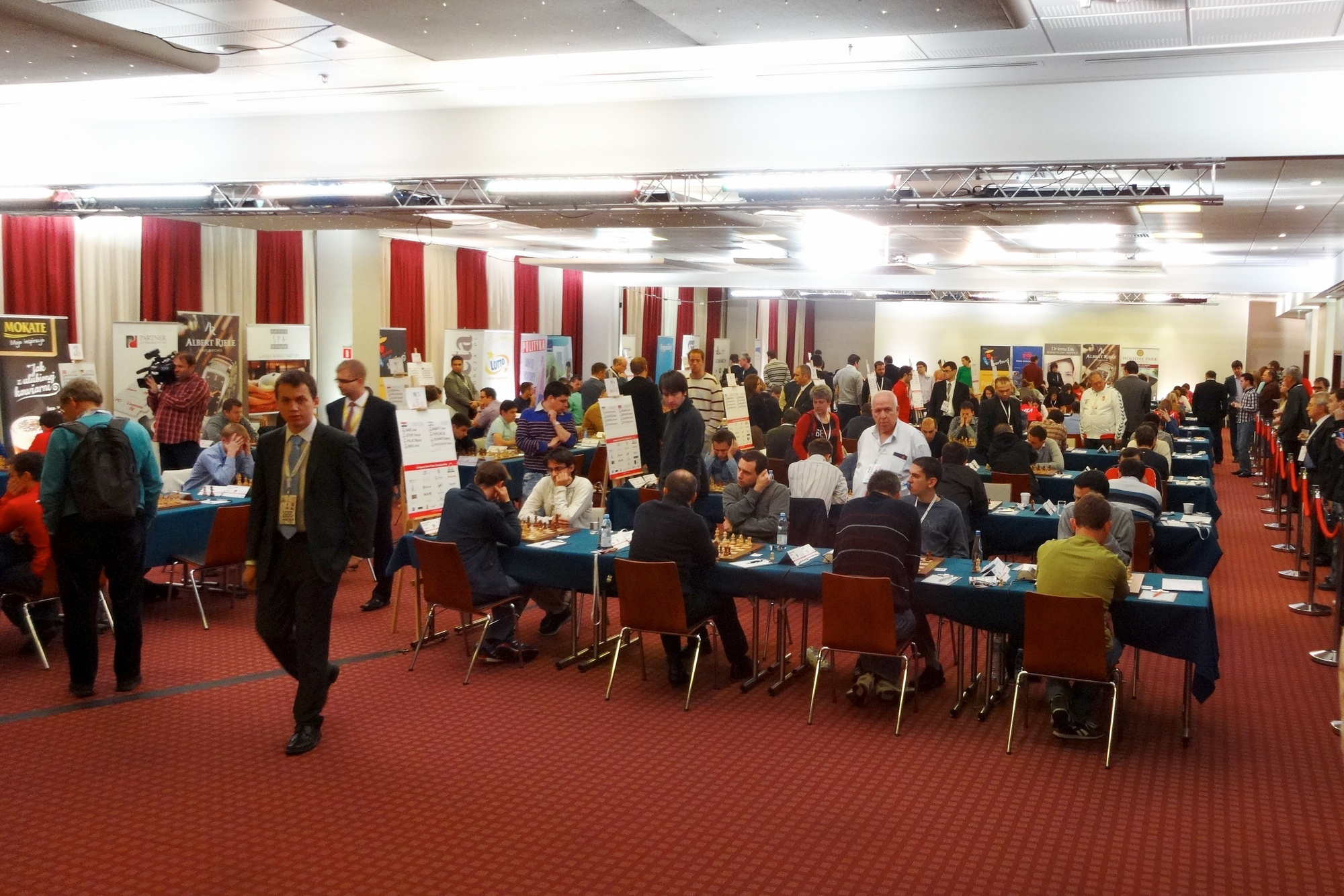 European Chess Team Championship, Hotel Novotel, Warsaw 2013